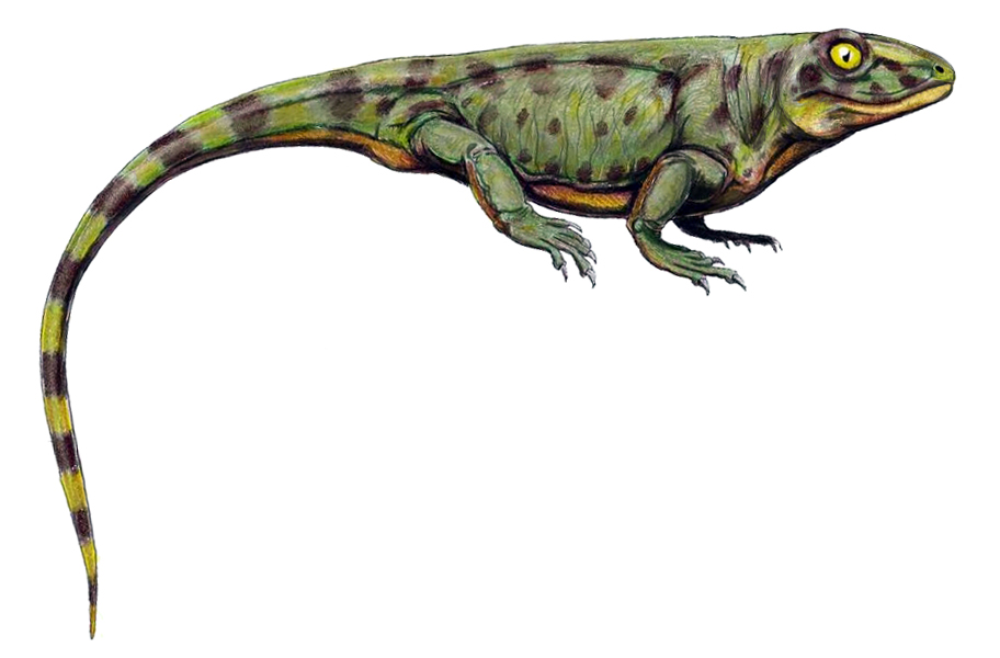 Kenomagnathus restoration modified from image that matched specimen formerly assigned to Haptodus garnettensis.[1]